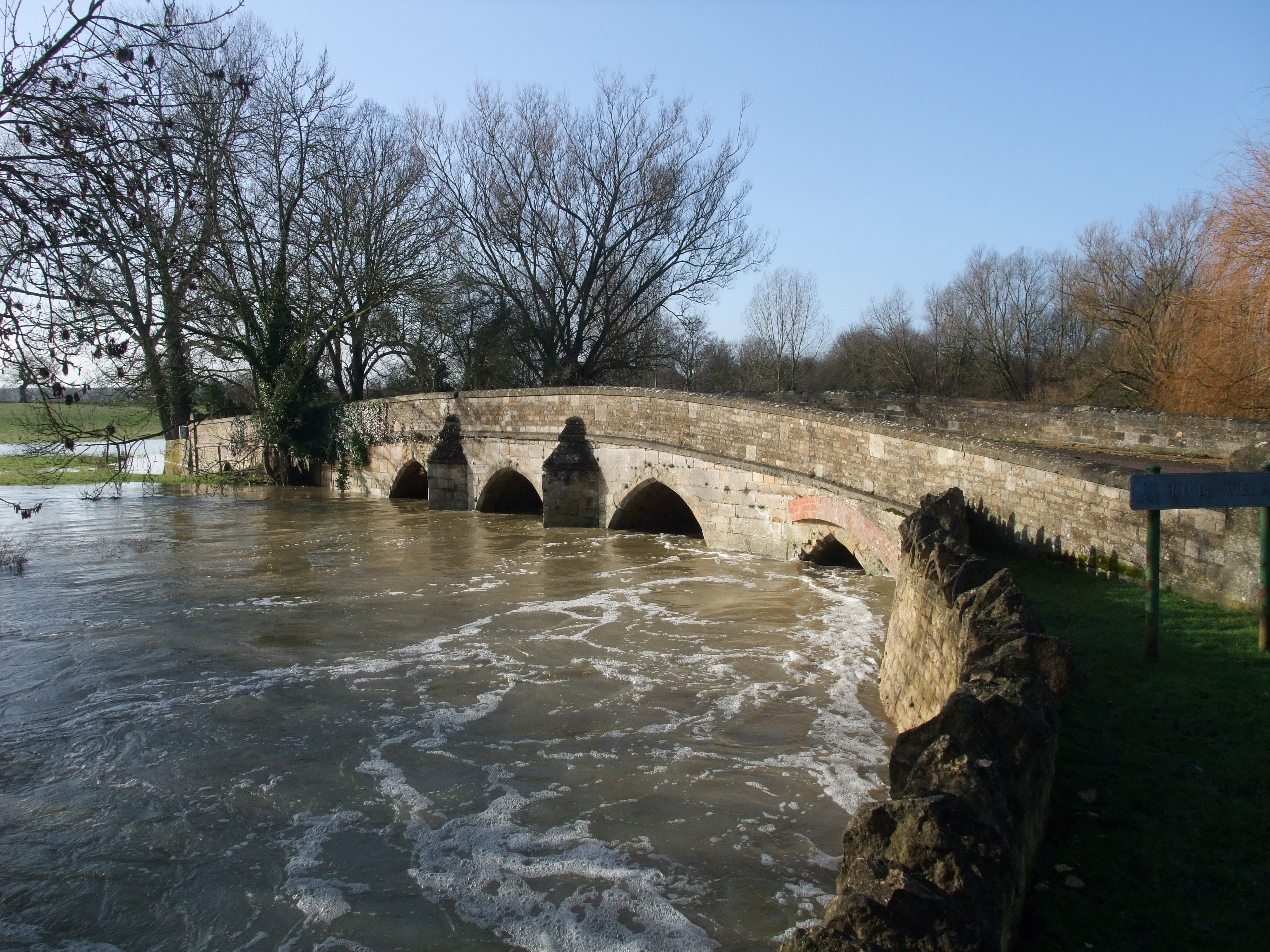 A swollen River Welland passing beneath the old bridge in Duddington